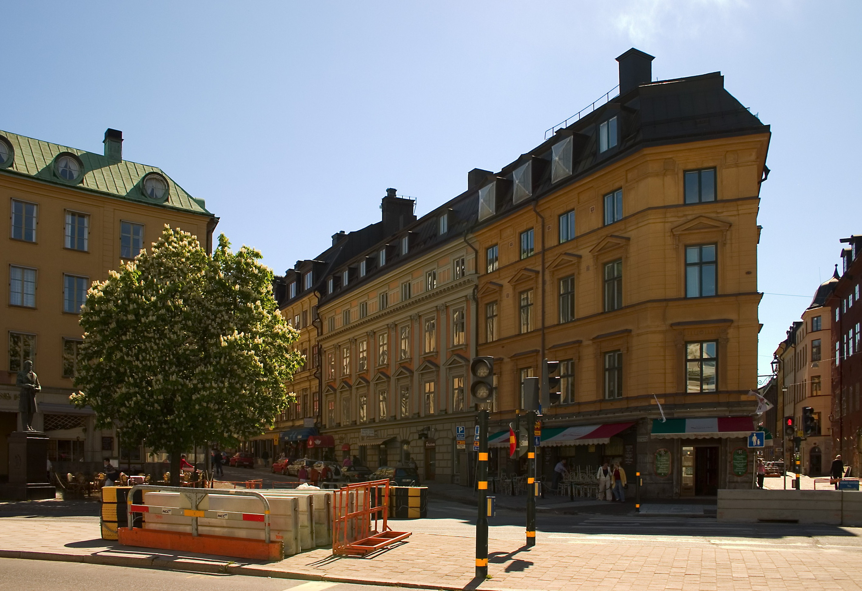 The very northmost part of Gamla Stan (the Old Town), looking south. Up and to the left is the Royal Palace.